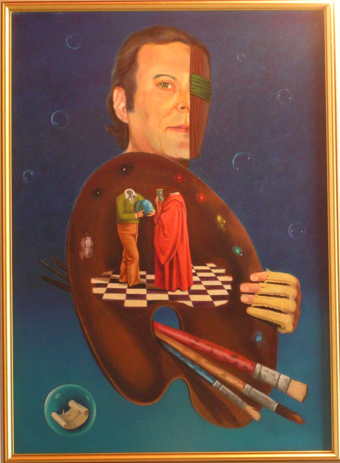 Self-portrait of the Italian painter William Girometti, 1973, oil on canvas, cm. 50x70 - owned by his daughter.